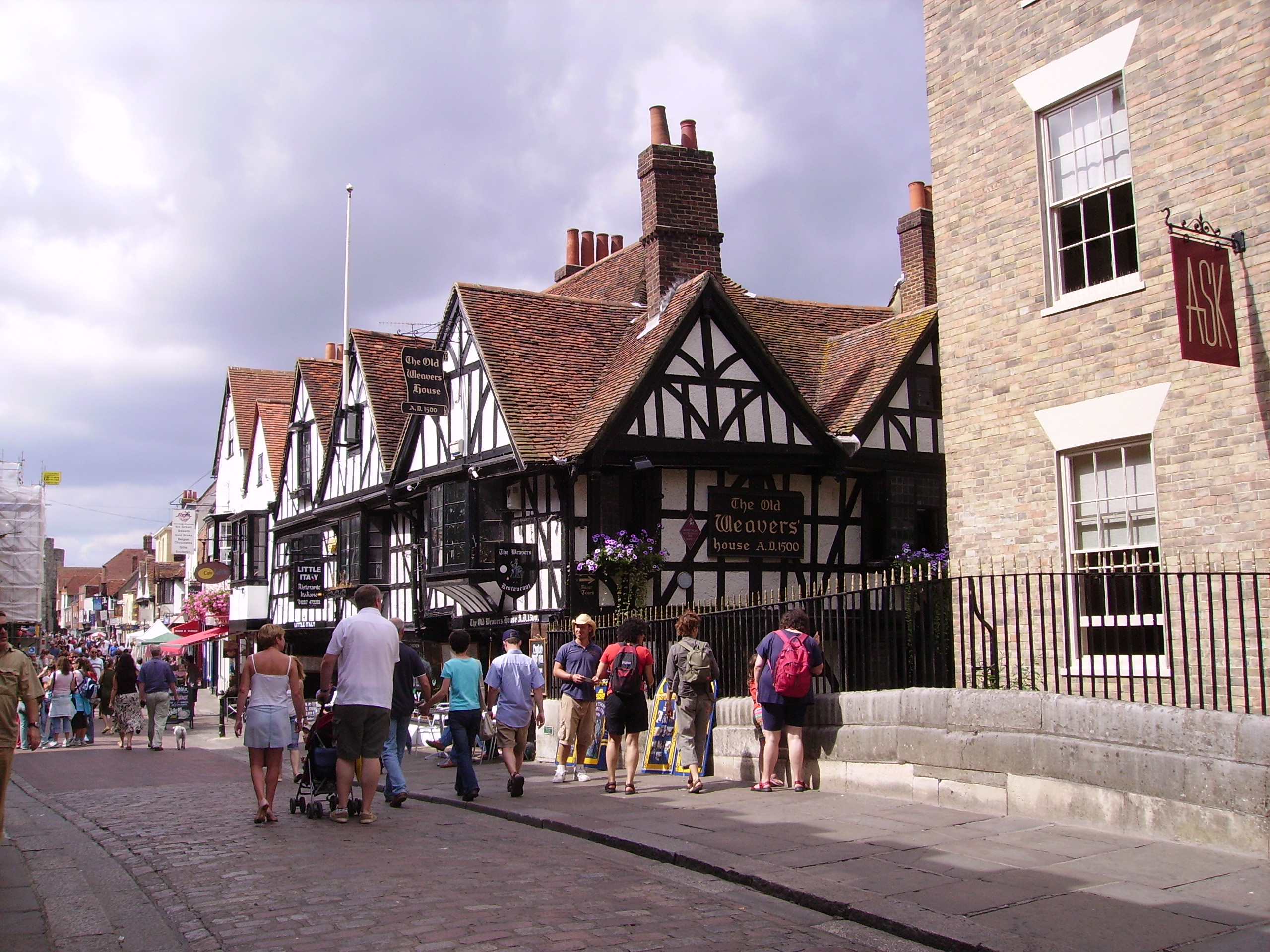 street in Canterbury, United Kingdom